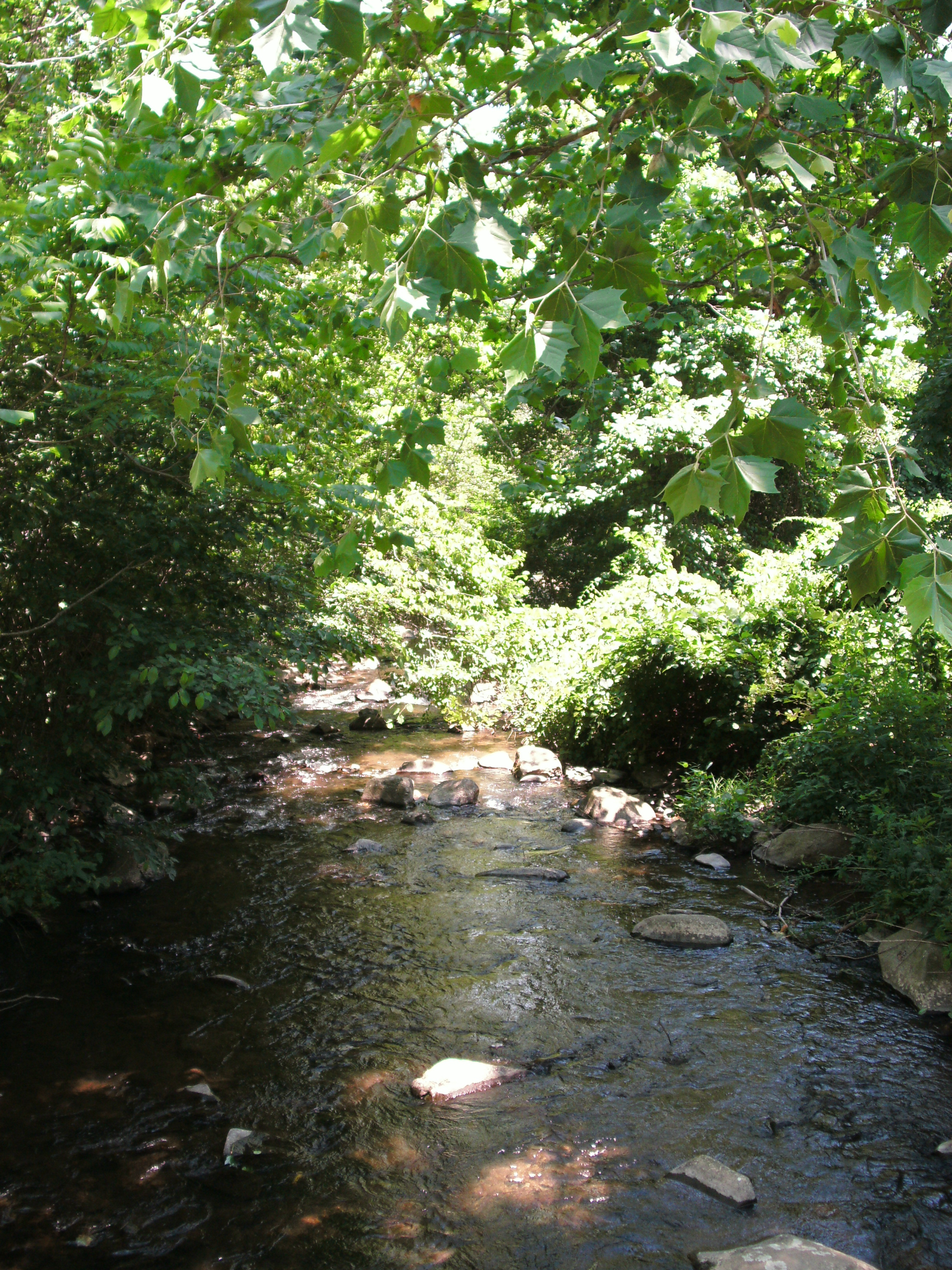 Image I took for Wikipedia